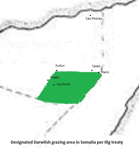 The territories assigned for grazing to the Darwiish in the Ilig treaty